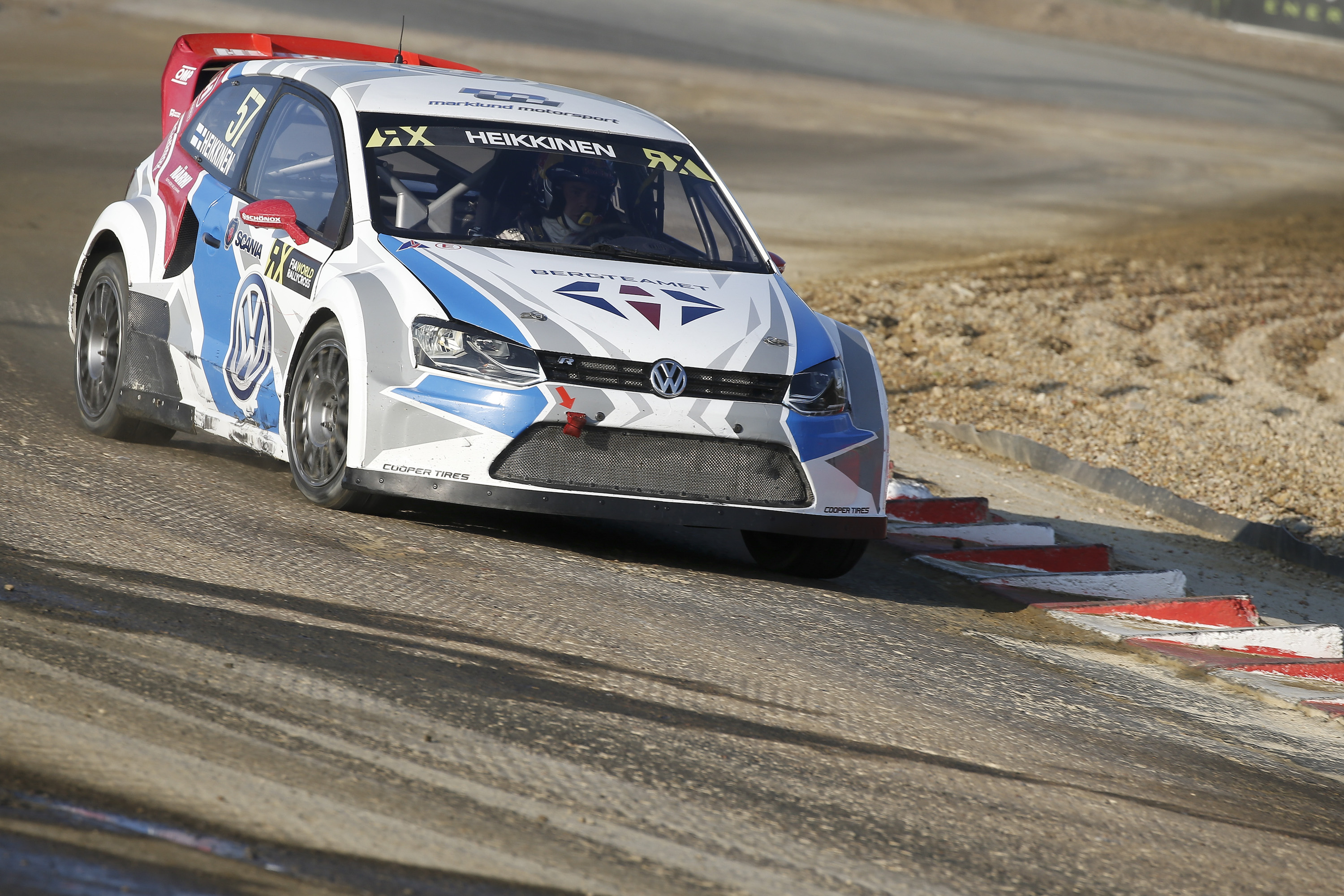 Finnish rallycross driver Toomas Heikkinen in his VW Polo R Supercar. Round 9 of the 2015 FIA World Rallycross Championship at Circuit de Lohéac, France.